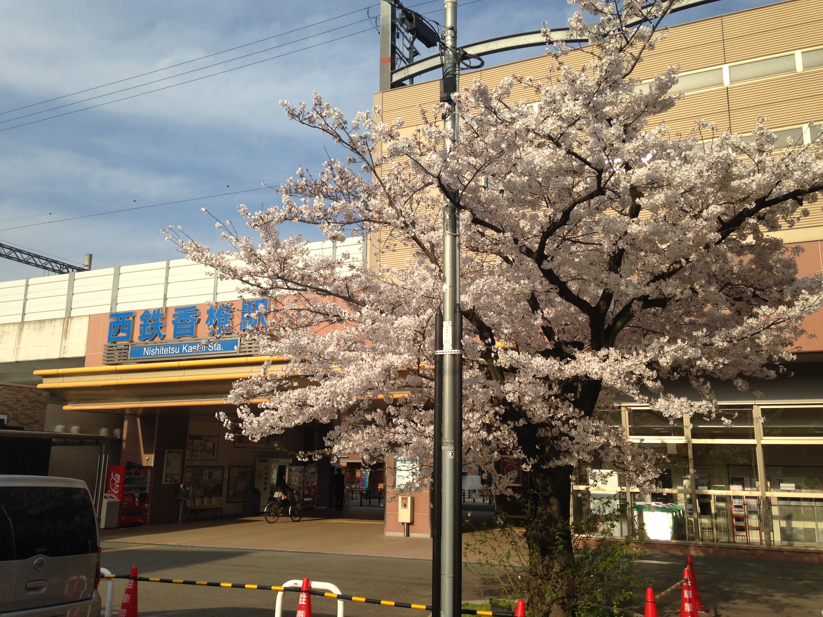 Seicho-zakura in front of Nishitetsu Kashii Station